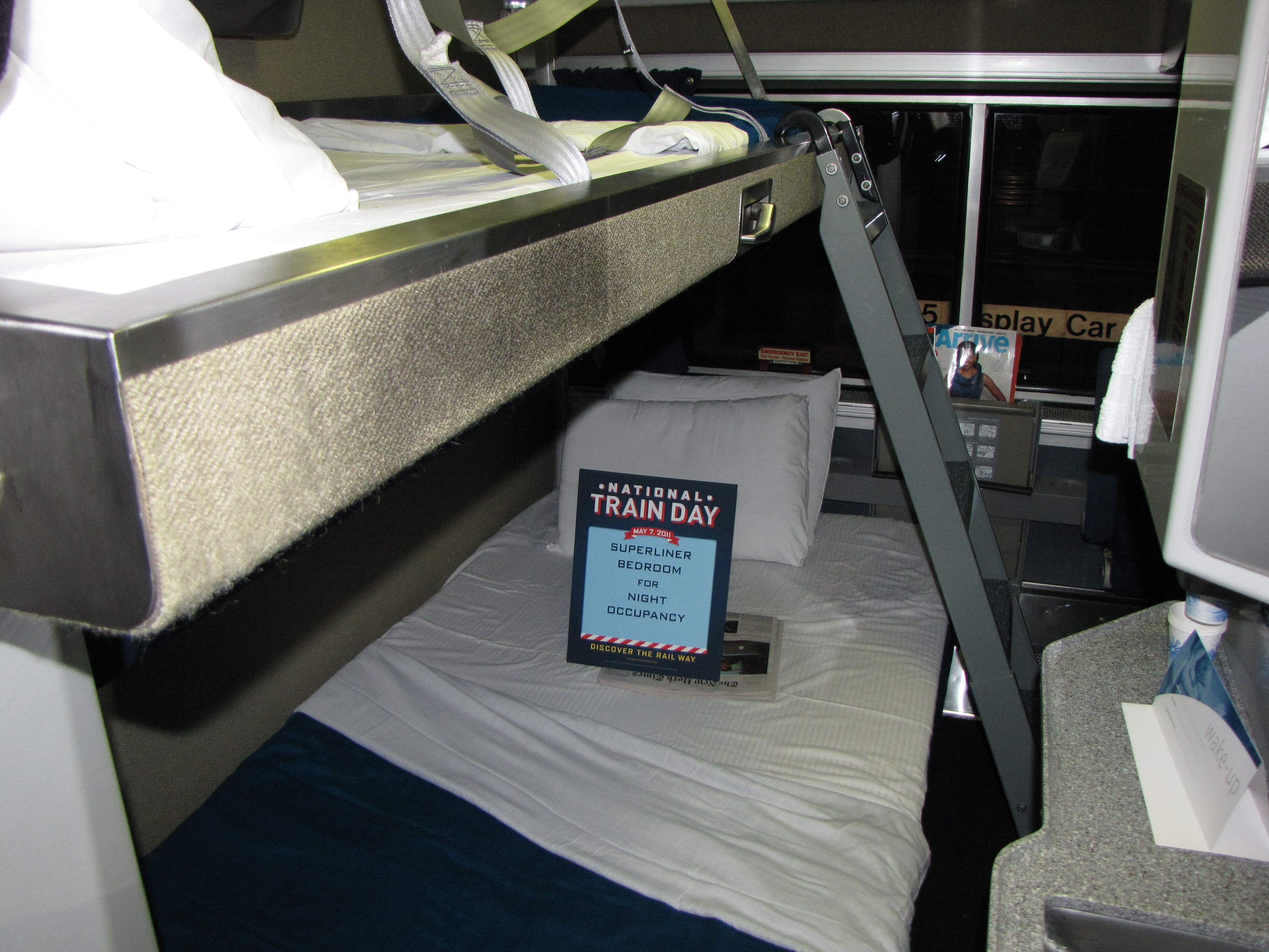 Amtrak Superliner bedroom in nighttime configuration. On display for National Train Day at Washington Union Station.